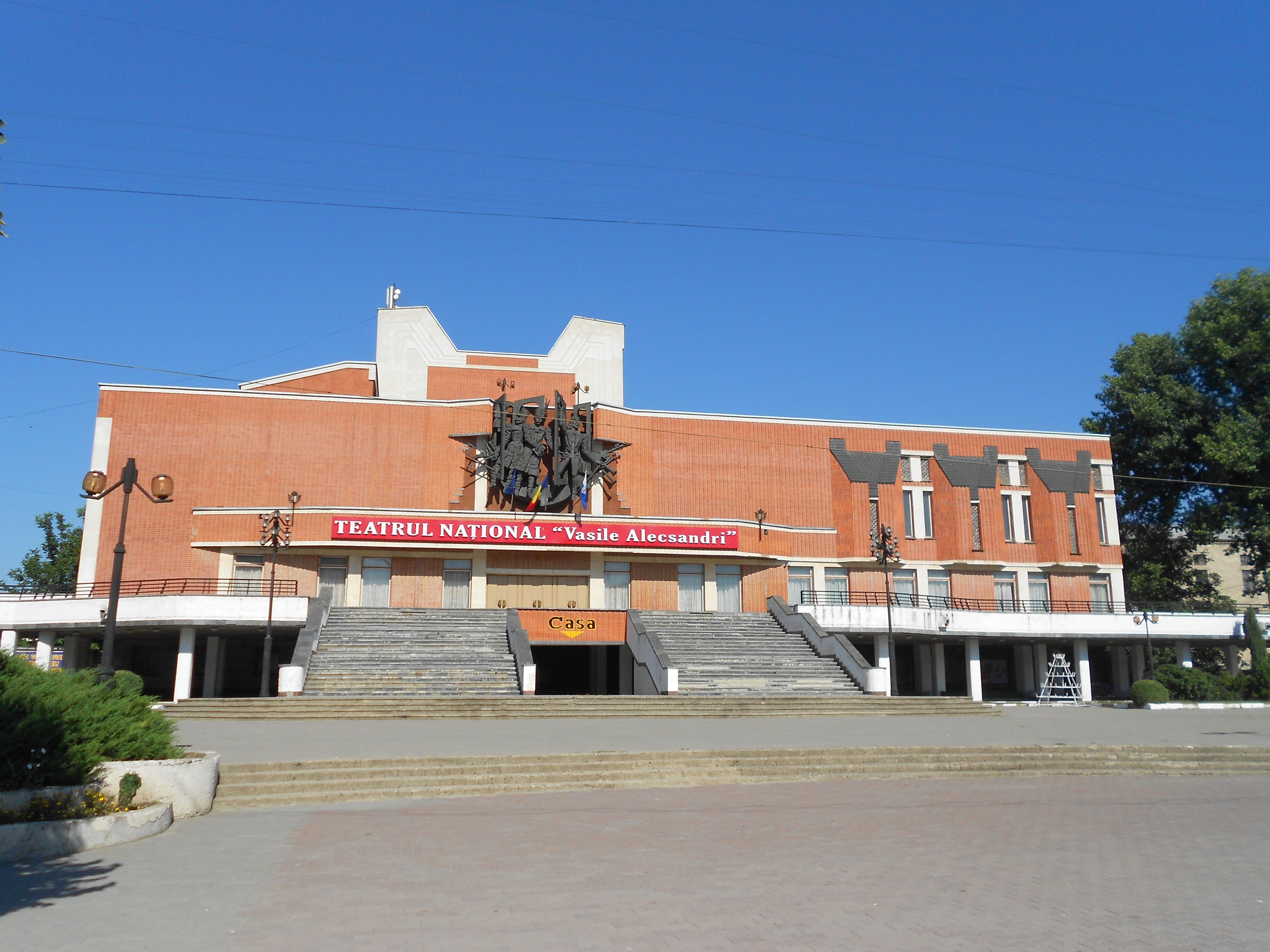 National Theatre "Vasile Alecsandri" from Bălți, 2011